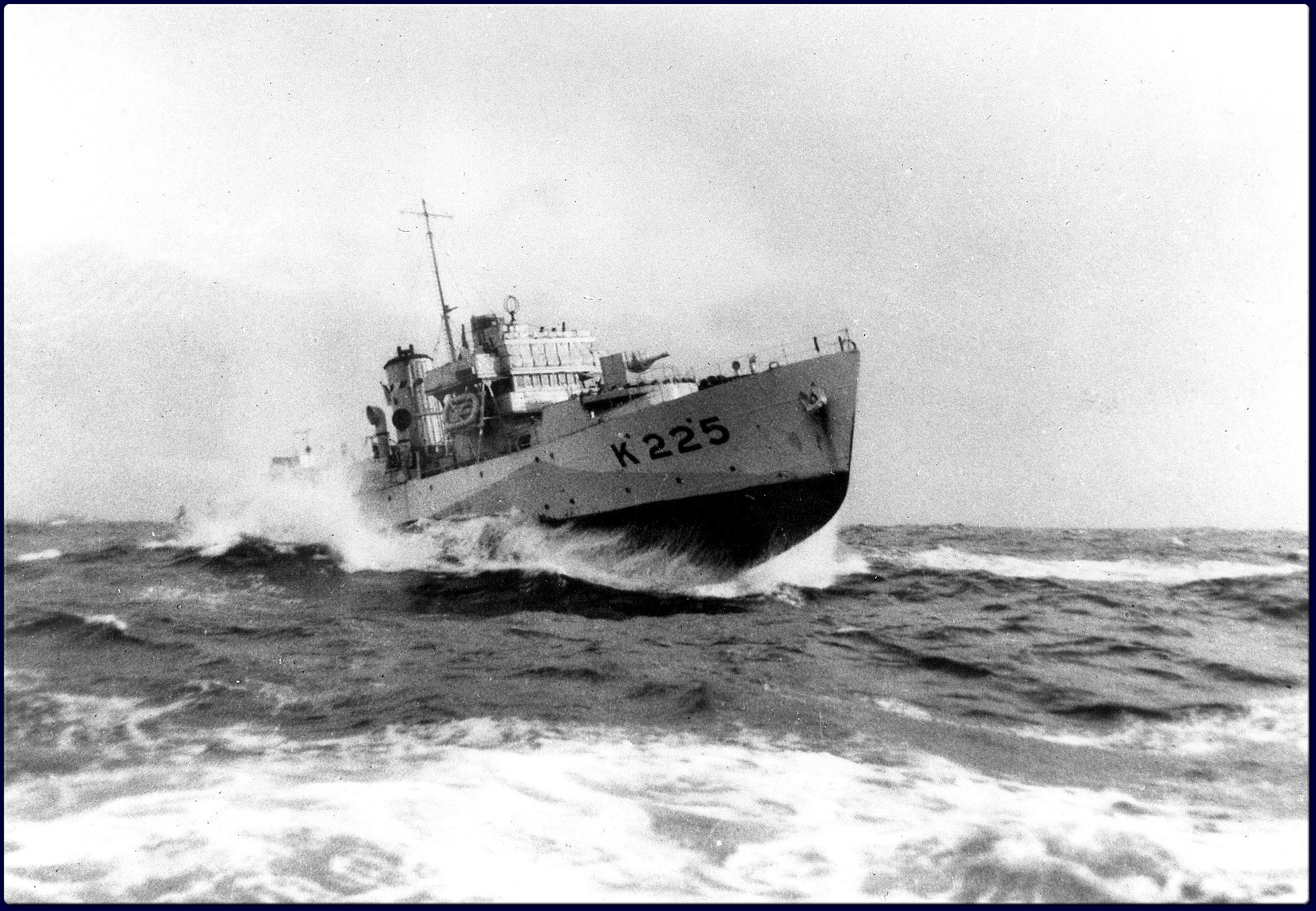 HMCS Kitchener (K-225) in rough seas.